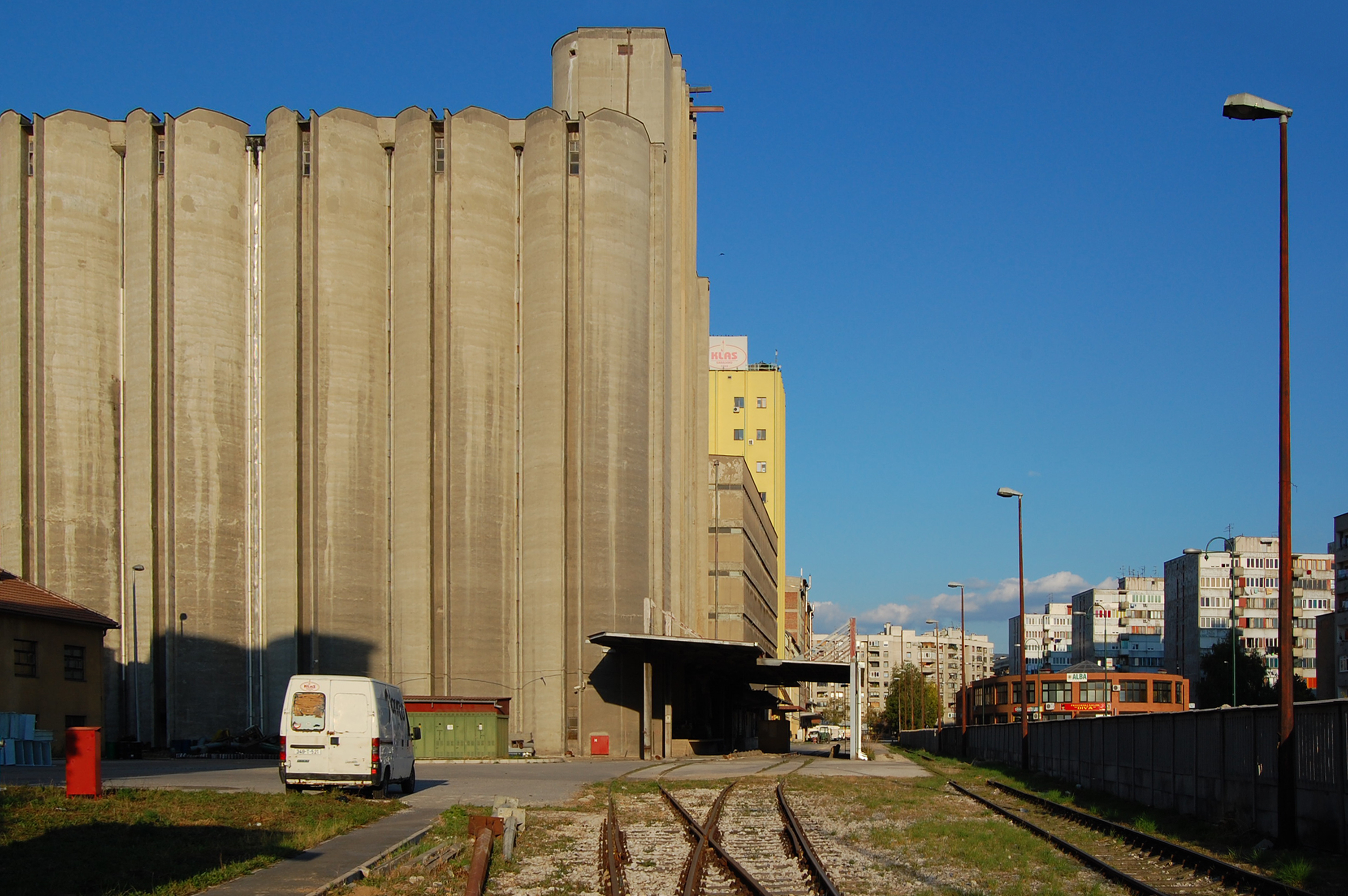 Klas d.d. Sarajevo